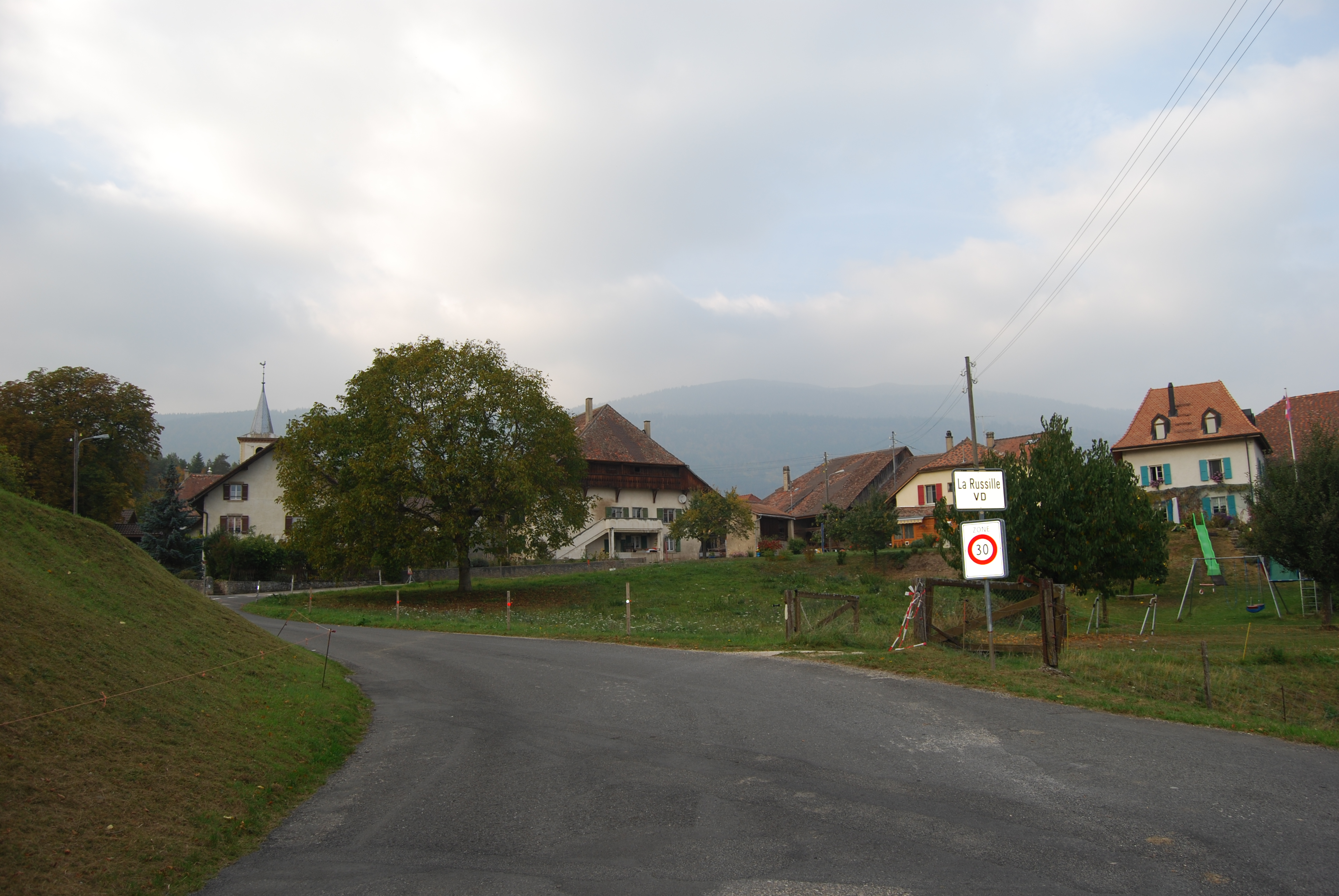 La Rusille, canton of Vaud, Switzerland